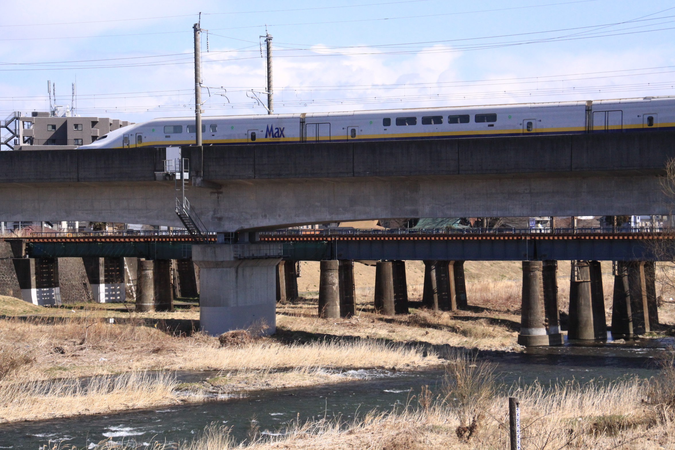 Max Yamabiko emergency stopped on bridge in Hirose river due to earthquake. Sendai, Miyagi.